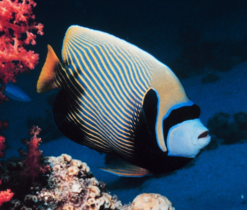 Pomacanthus imperator